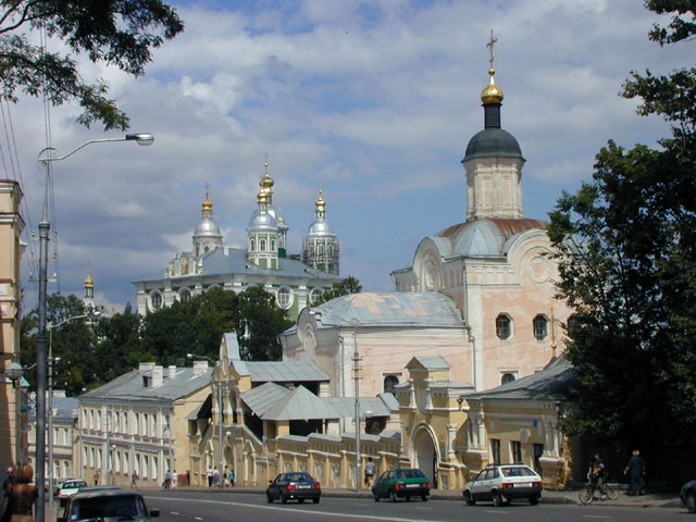 The Assumption Cathedral in Smolensk, Russia. On the right, the Trinity (Troitsky) Cathedral of the Troitsky Monastery